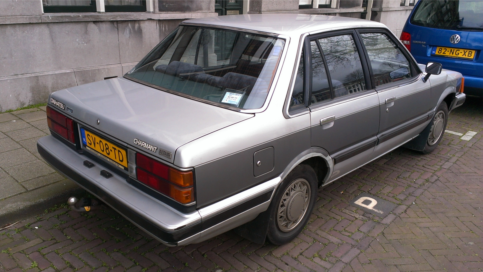 1988 Daihatsu Charmant 1300 LC Altair rear